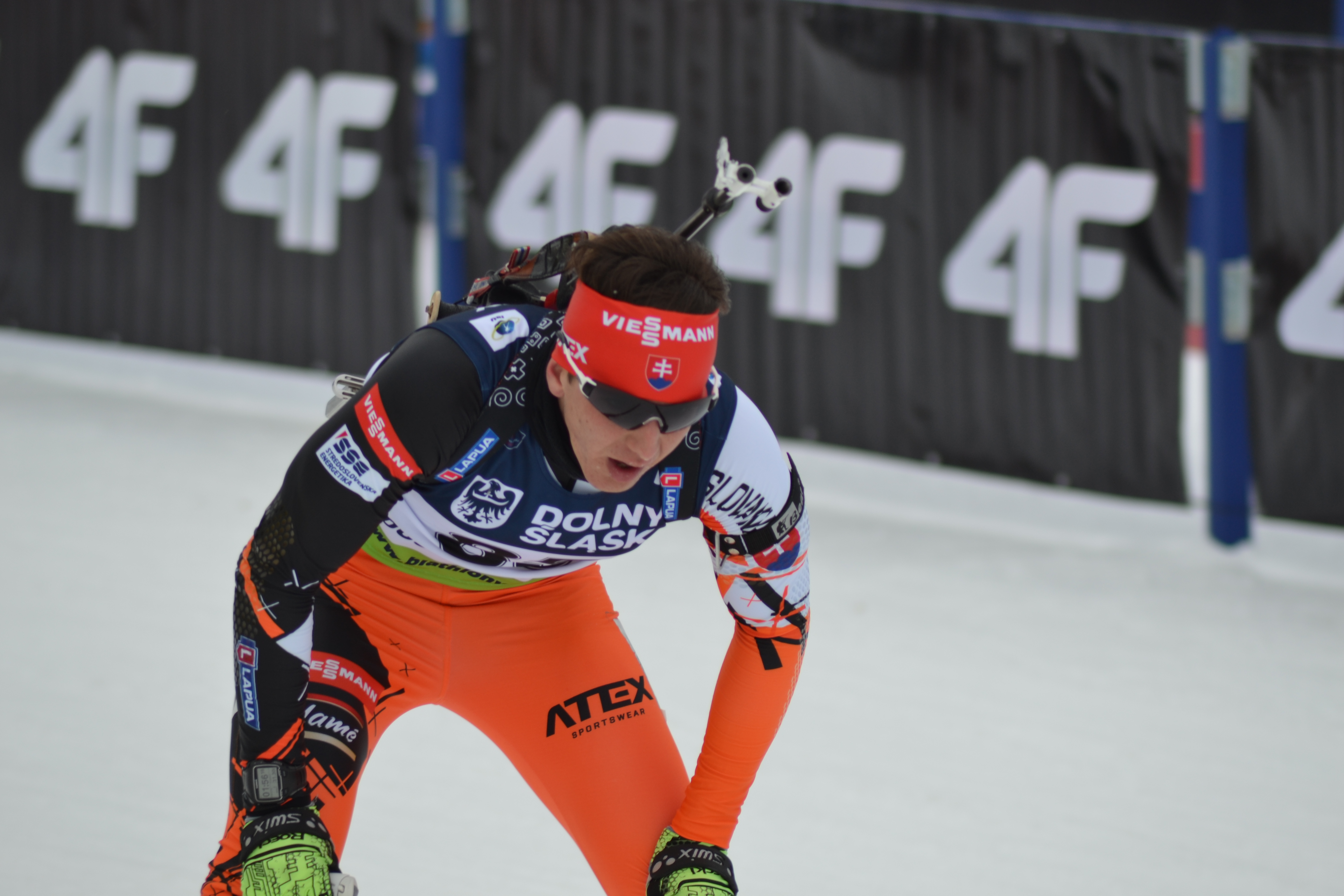 Open European Championships Biathlon 2017, Individual Men's race, held on January 25th.